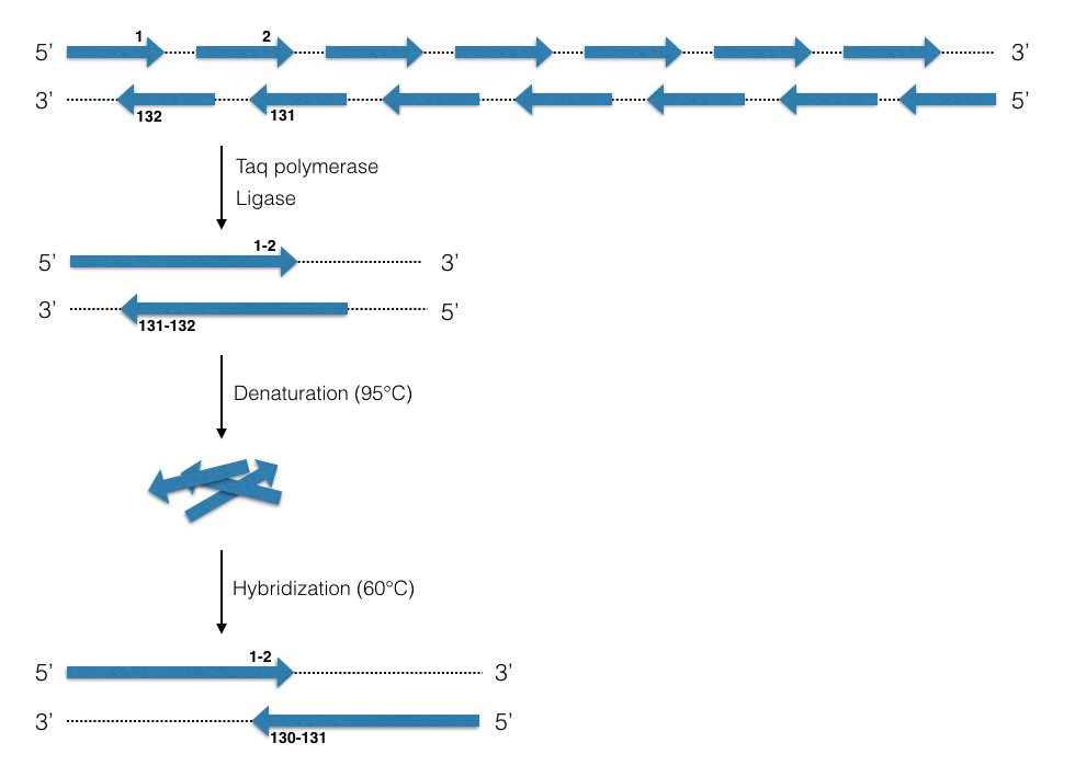 Polymerase Cycling Assembly illustrated by Nivin Nasri